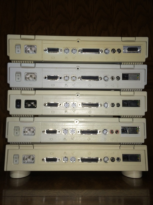 The LC family (LC, II, III, 475, Q605) back face